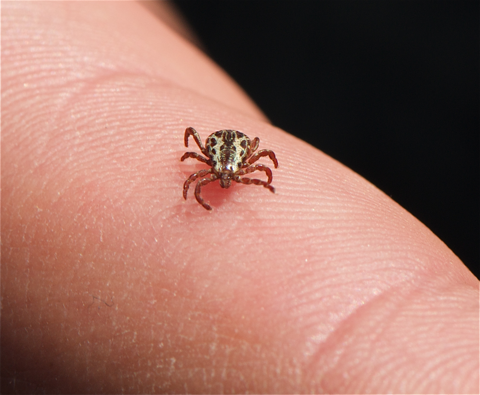 This is a species of tick that is one of the most well-known of the hard ticks. I have never seen so many ticks on so many animals as we found today. You can almost see the mouth parts of this animal as it is looking for a spot to embed.